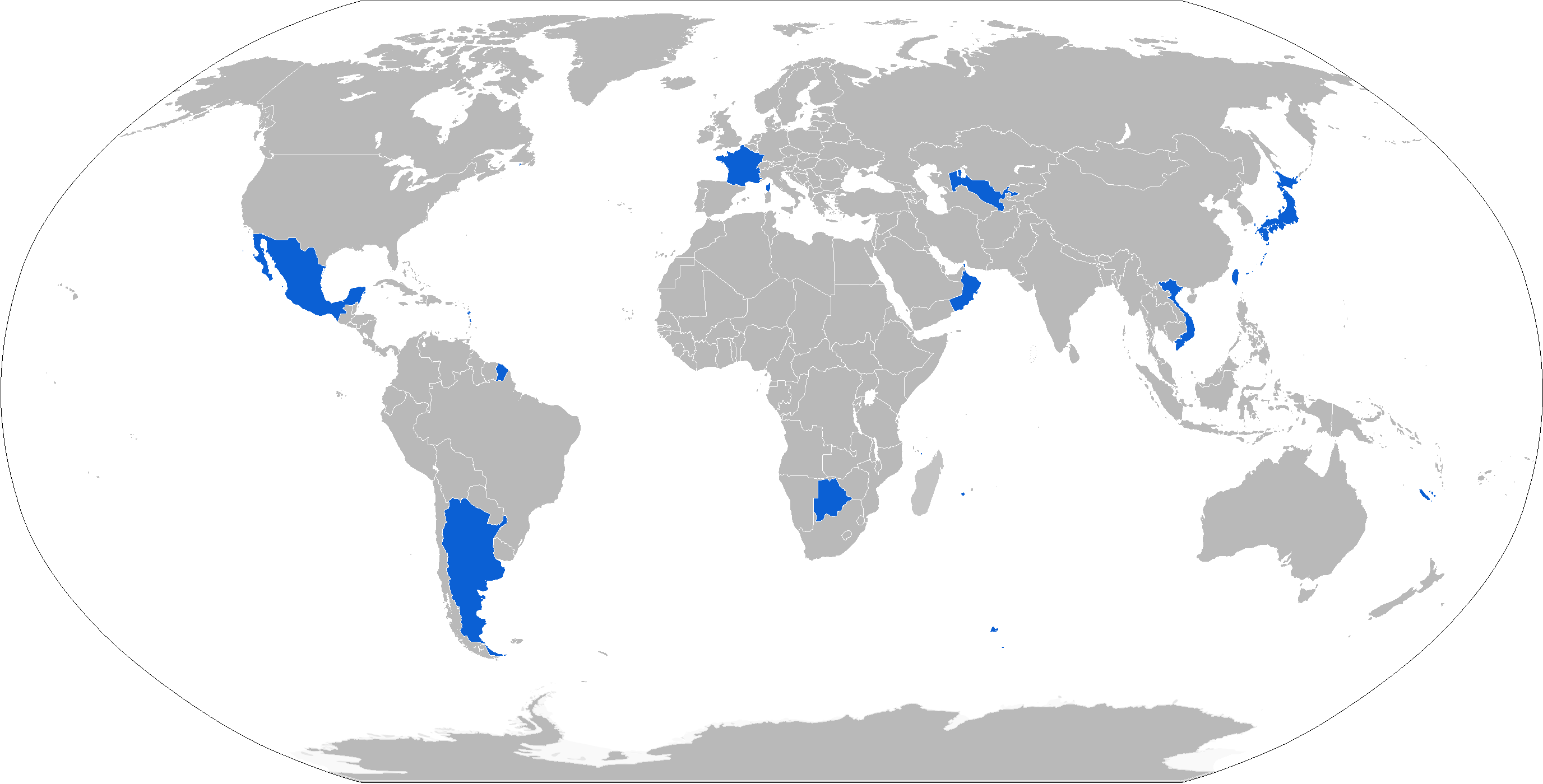 Map with military Eurocopter EC225 operators in blue